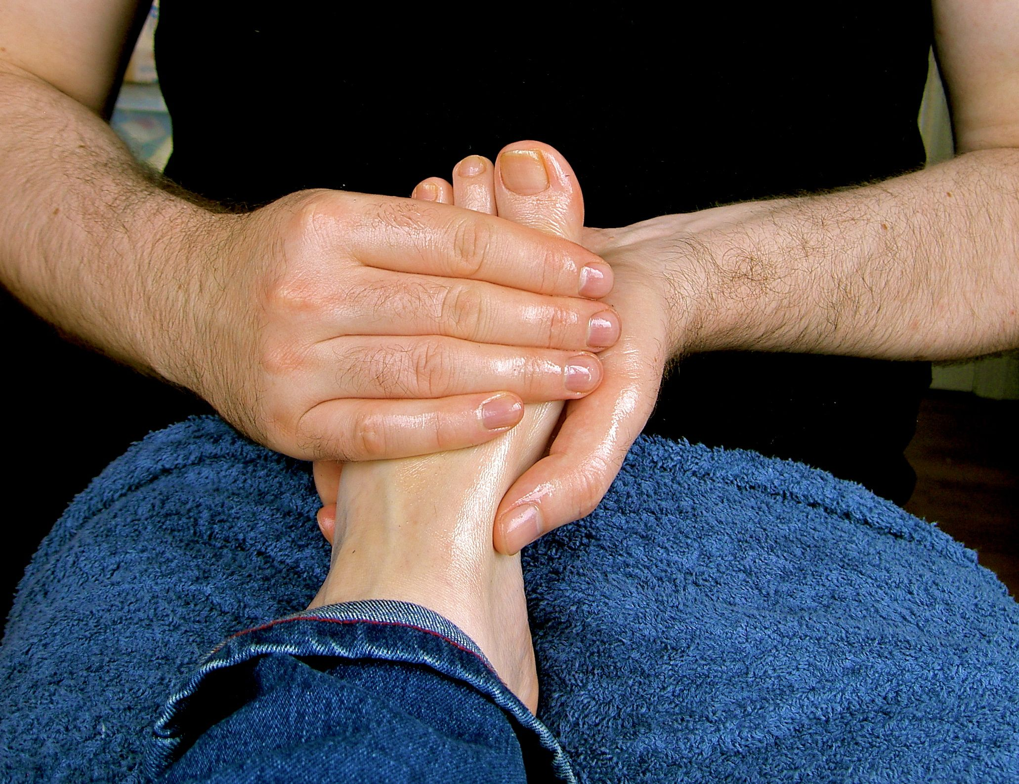 Photograph of a man massaging a woman's foot using baby oil as a lubricant. The foot is mine and the massaging hands are my partner's. I own this image and all rights to it, and I am pleased to share it under the Creative Commons Attribution Share-Alike Unported 3.0 license.